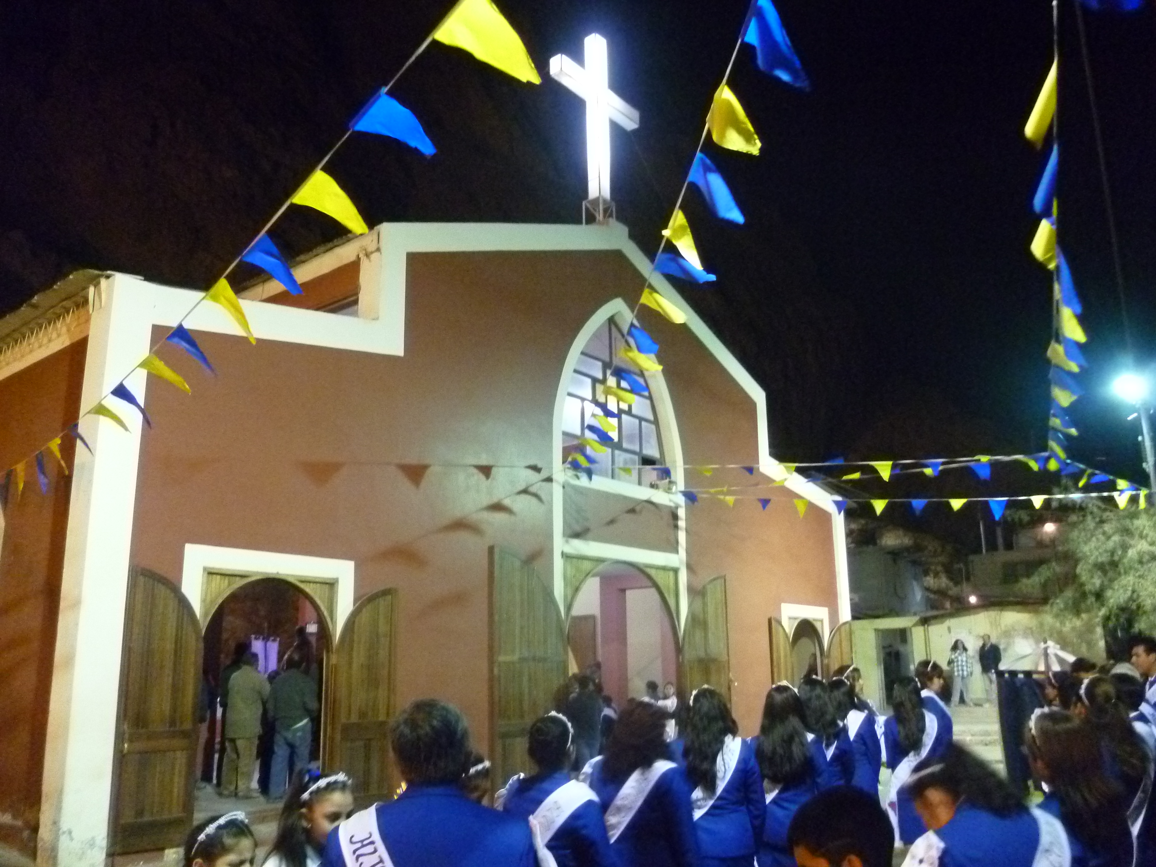 Santuario de las Peñas y bailarines (Livilcar-Arica)